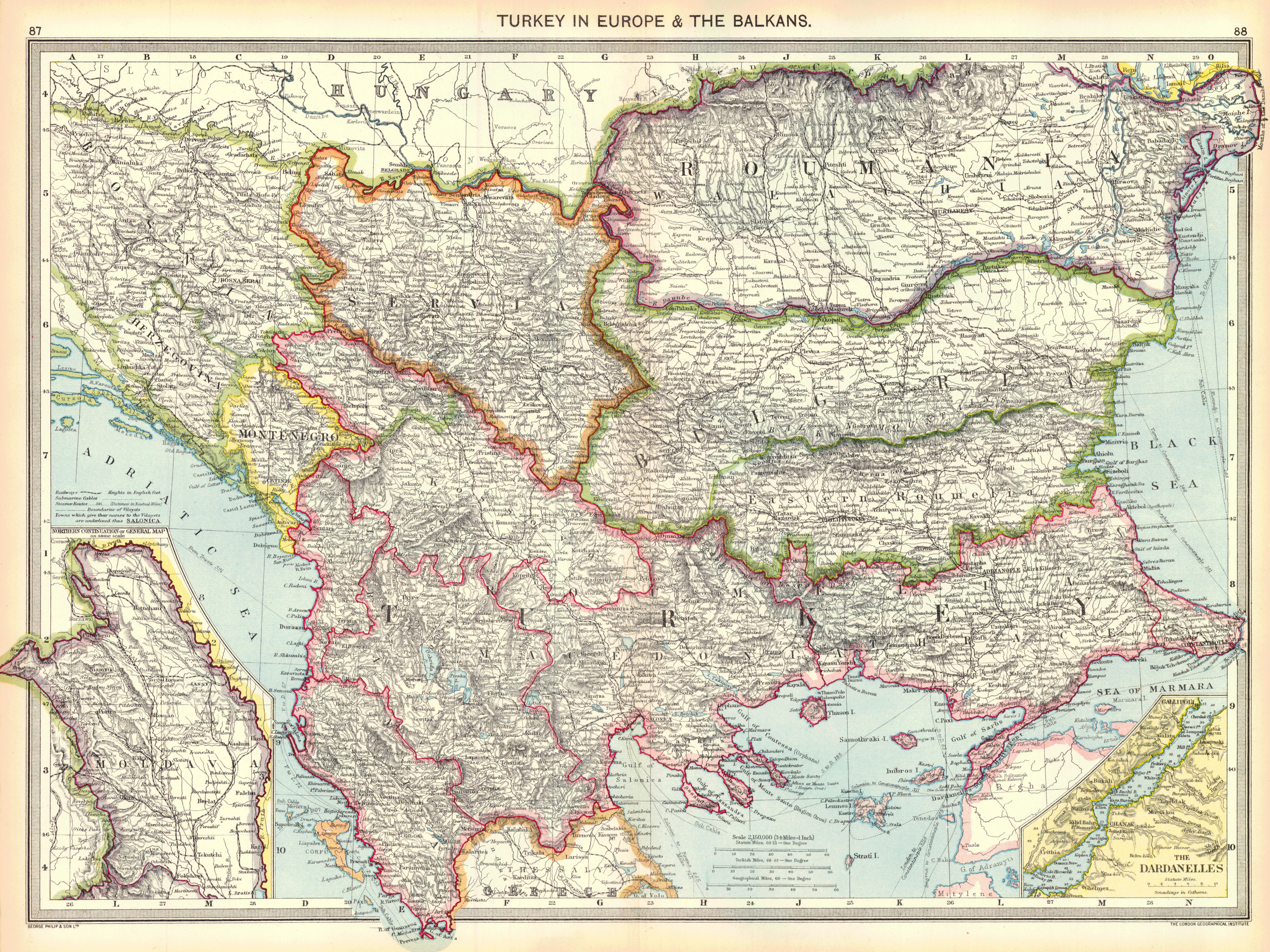 Turkey in Europe and the Balkans Publication Info: London: Carmelite House, c.1910; from The Harmsworth Atlas and Gazetteer Date: 1910 Scale: 1:2,150,000